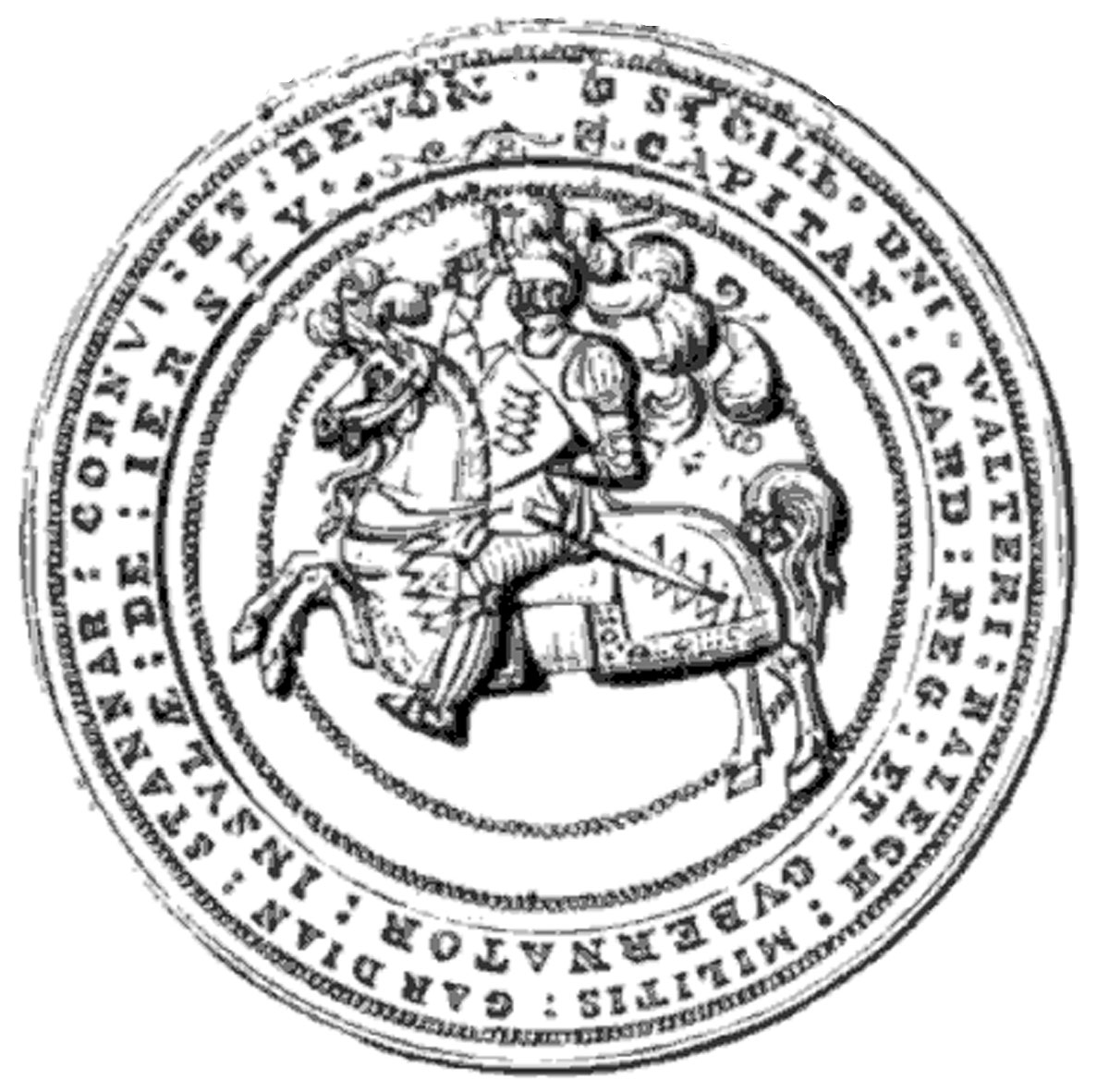 Seal of Office of Sir Walter Raleigh